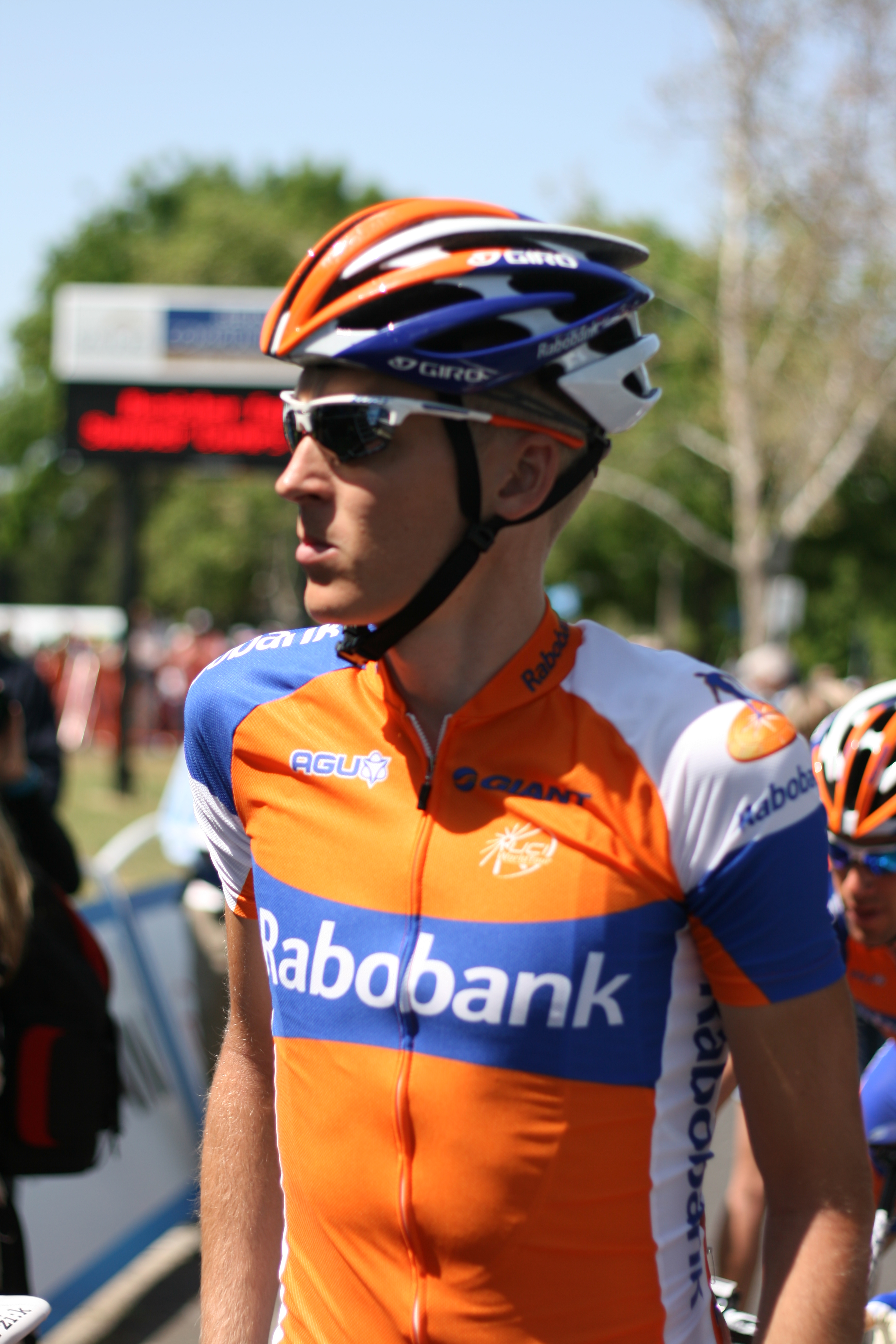 Tour of California 2012, Robert Gesink at the start of the third stage